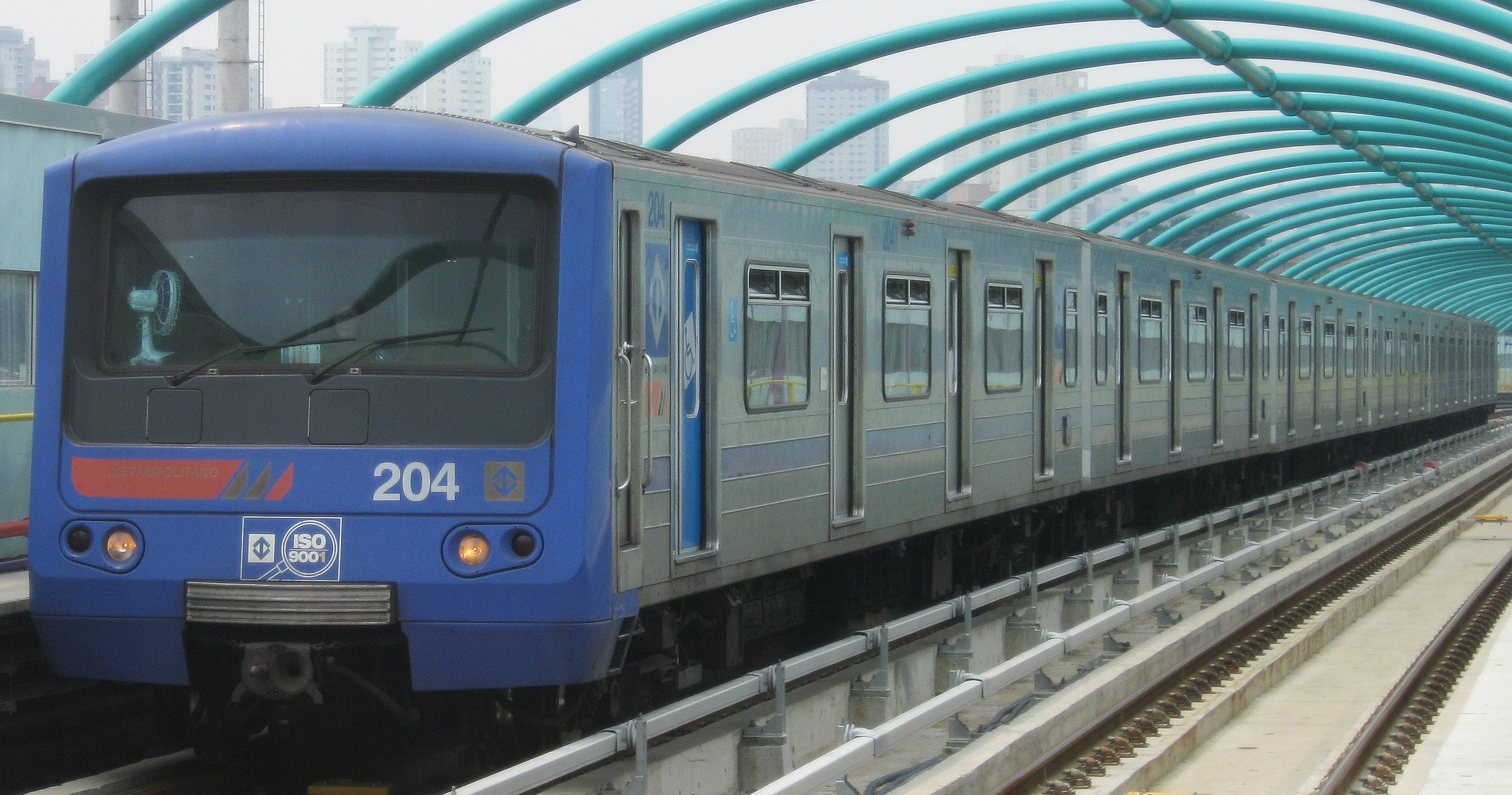 Alstom Milênio train arriving at station Tamanduateí